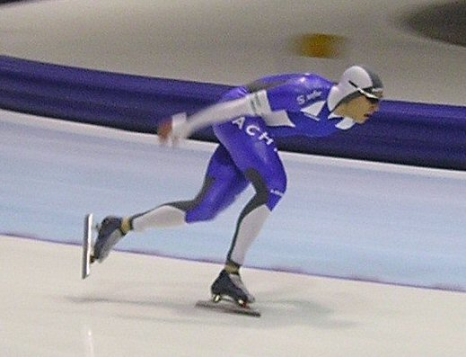 Pekka Koskela (FIN) at a World Cup in Thialf (Heerenveen, The Netherlands)